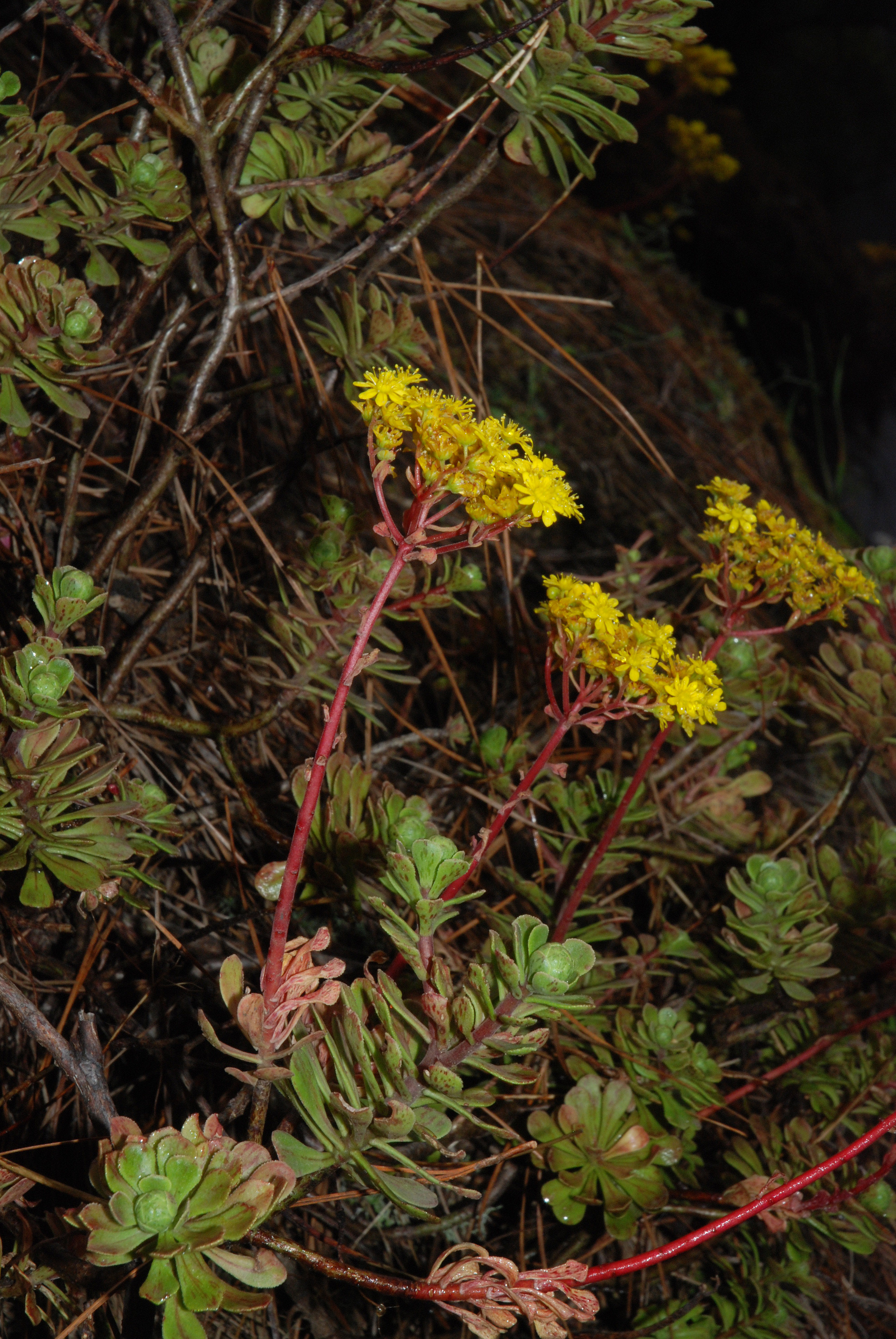 Aeonium spathulatum, Near Refugio del Pila, La Palma, Spain